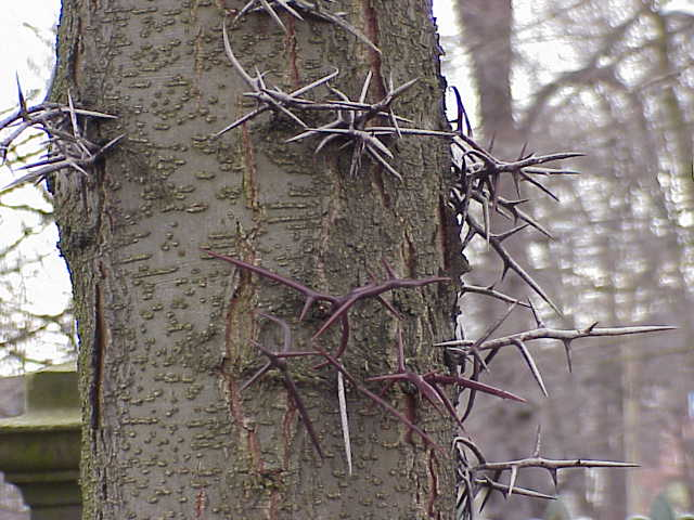 Species: Gleditsia sinensis Family: Caesalpiniaceae Image No. 2